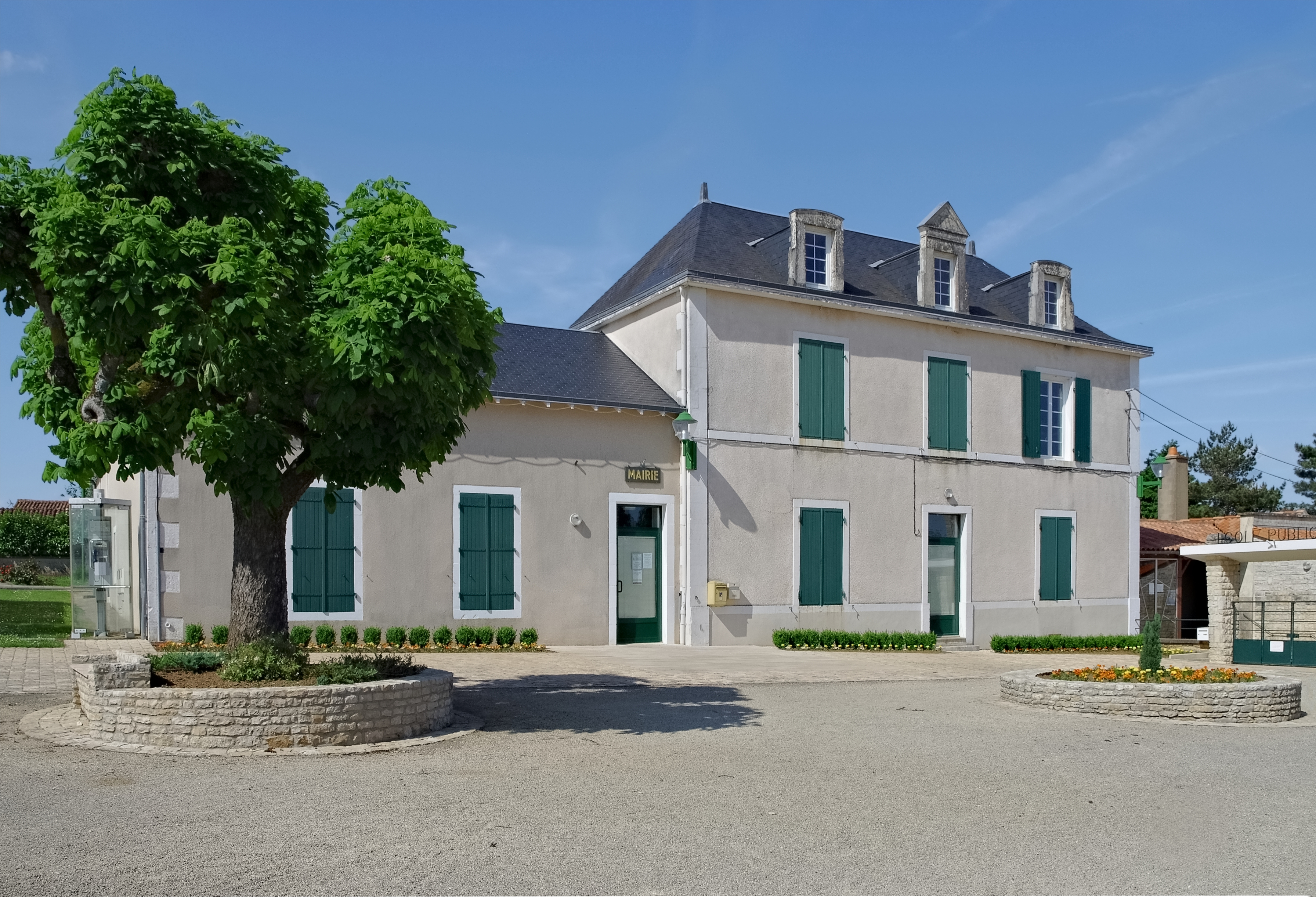 Townhall of Saint-Pierre-d'Exideuil, Vienne, France.